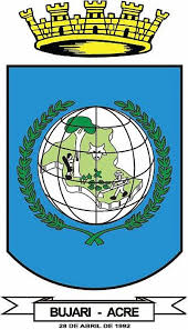 brasão de Bujari-AC